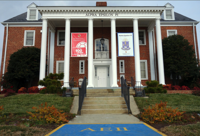 The AEPi House of the Delta Deuteron Chapter at the University of Maryland, College Park.